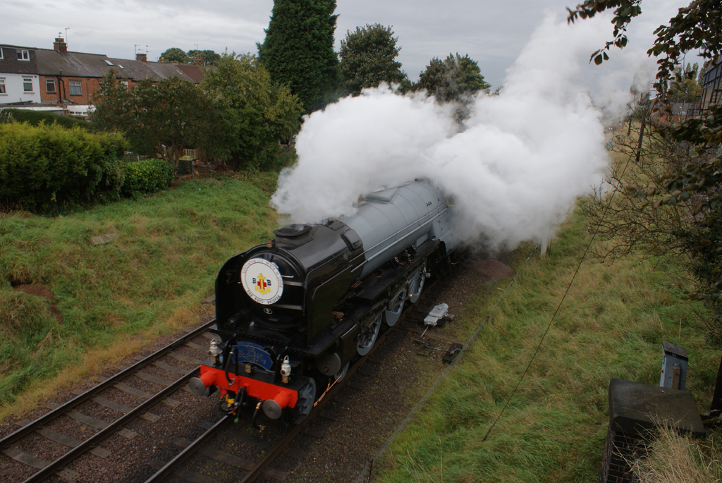 60163 Tornado at the Grand Central Railway, 4th October 2008